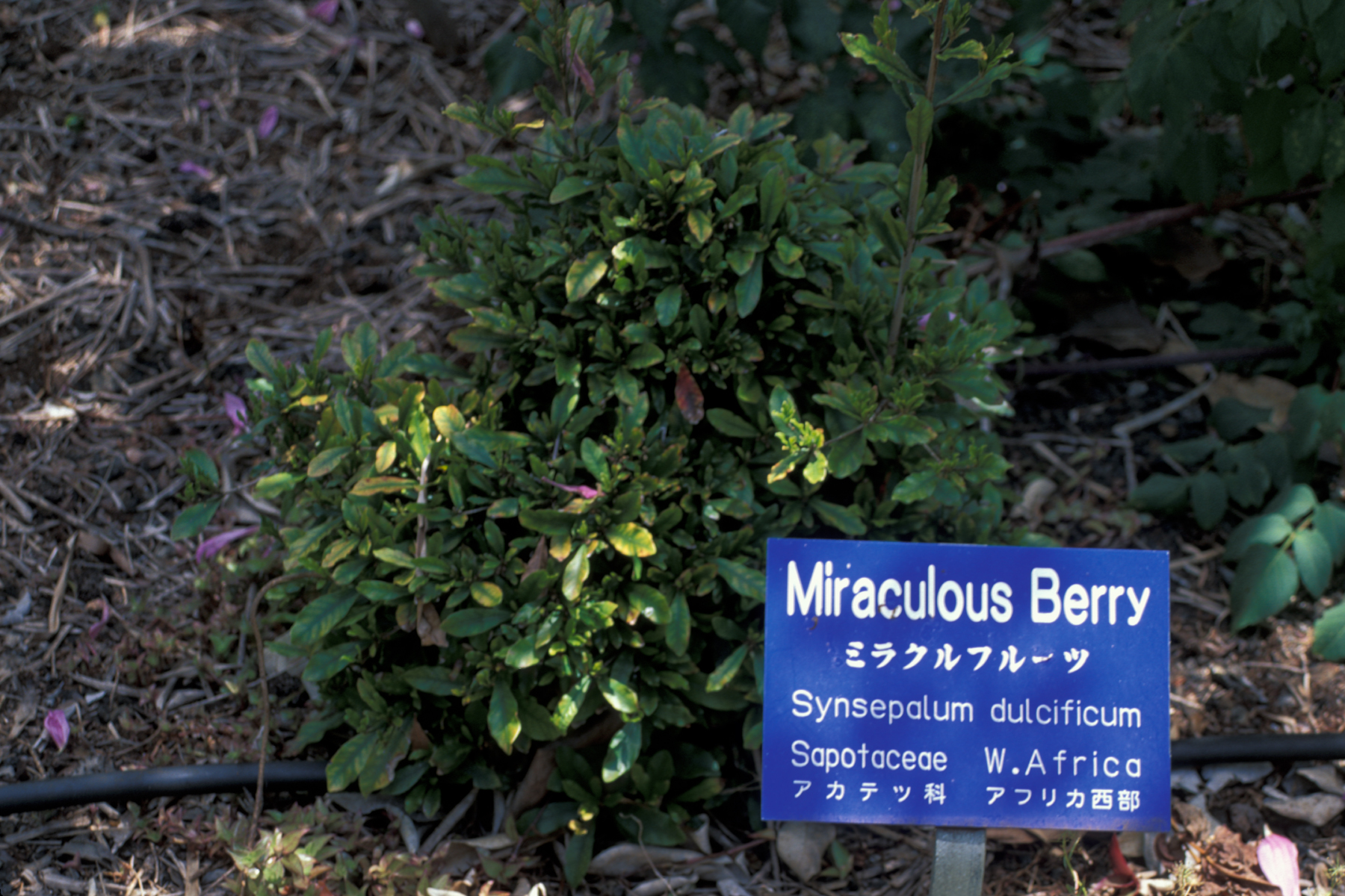 Synsepalum dulcificum (habit). Location: Maui, Enchanting Floral Gardens of Kula